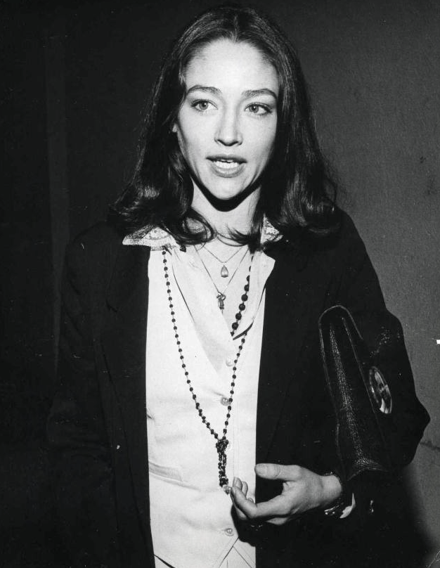 Publicity photo of Olivia Hussey ca. 1974